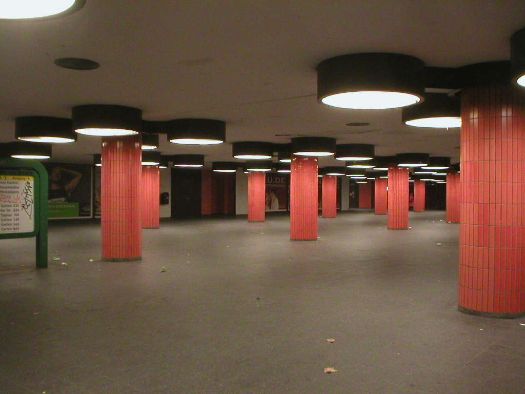 Pedestrian underpass below the Masurenallee / Neue Kantstraße / Messedamm intersection close to Berlin's Central Bus Station (ZOB). The underpass serves as a preparation for a possible extension of the Berlin U-Bahn. Berlin, Germany.